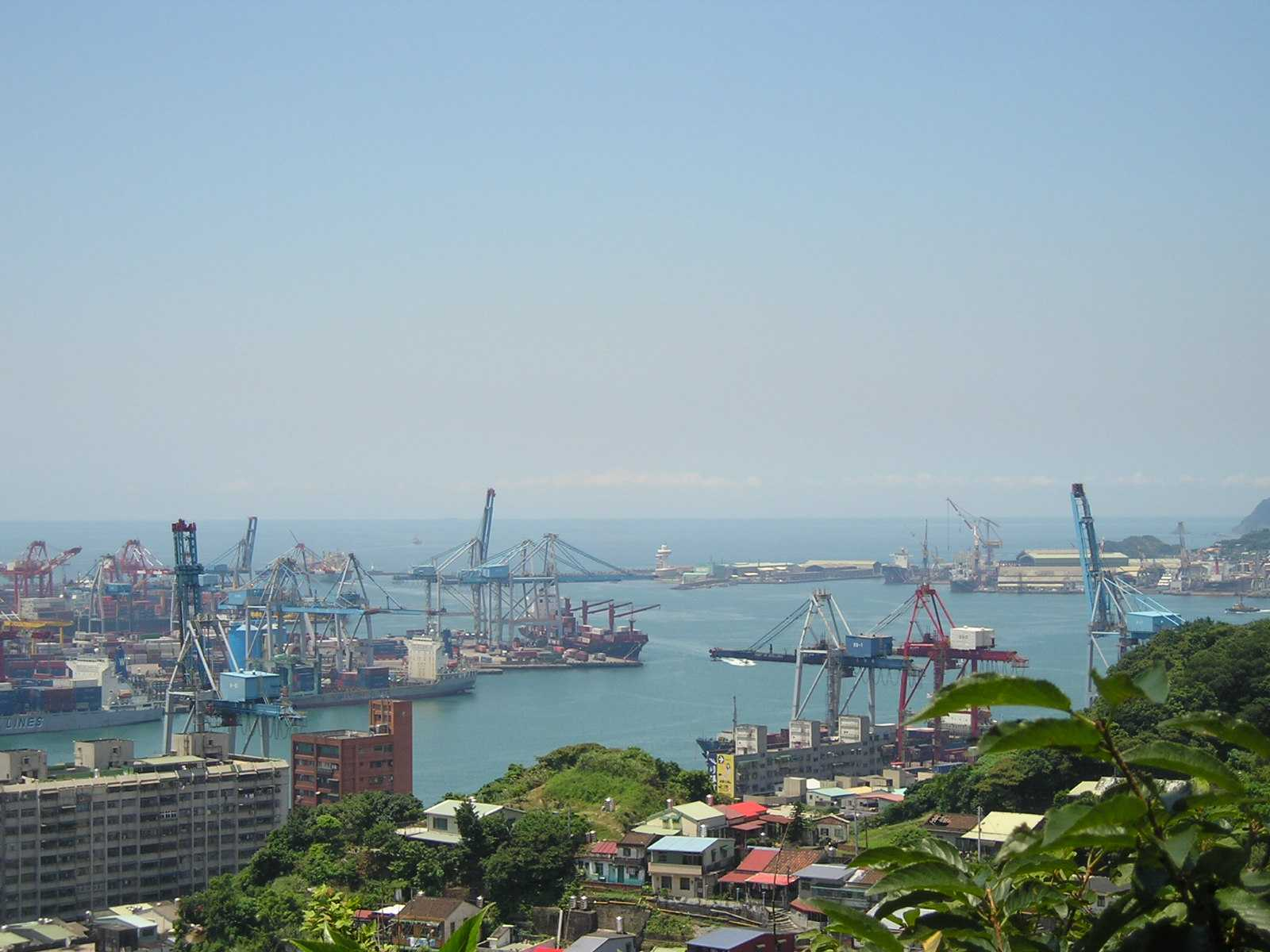 Keelung city port area.